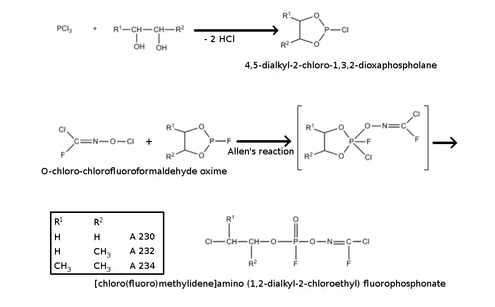 Synthesis of A232 (Novichok-5) and A234. Each has been mentioned in connection with the poisoning of Sergei and Yulia Skripal, though at this time I've seen no definitive statement on the precise substance used. The chemical structures in this reaction scheme are taken directly from the PDF available at ; to these I have added English translations of the chemical names and otherwise relabeled for consistency. Sources for the main translations are [1][2]